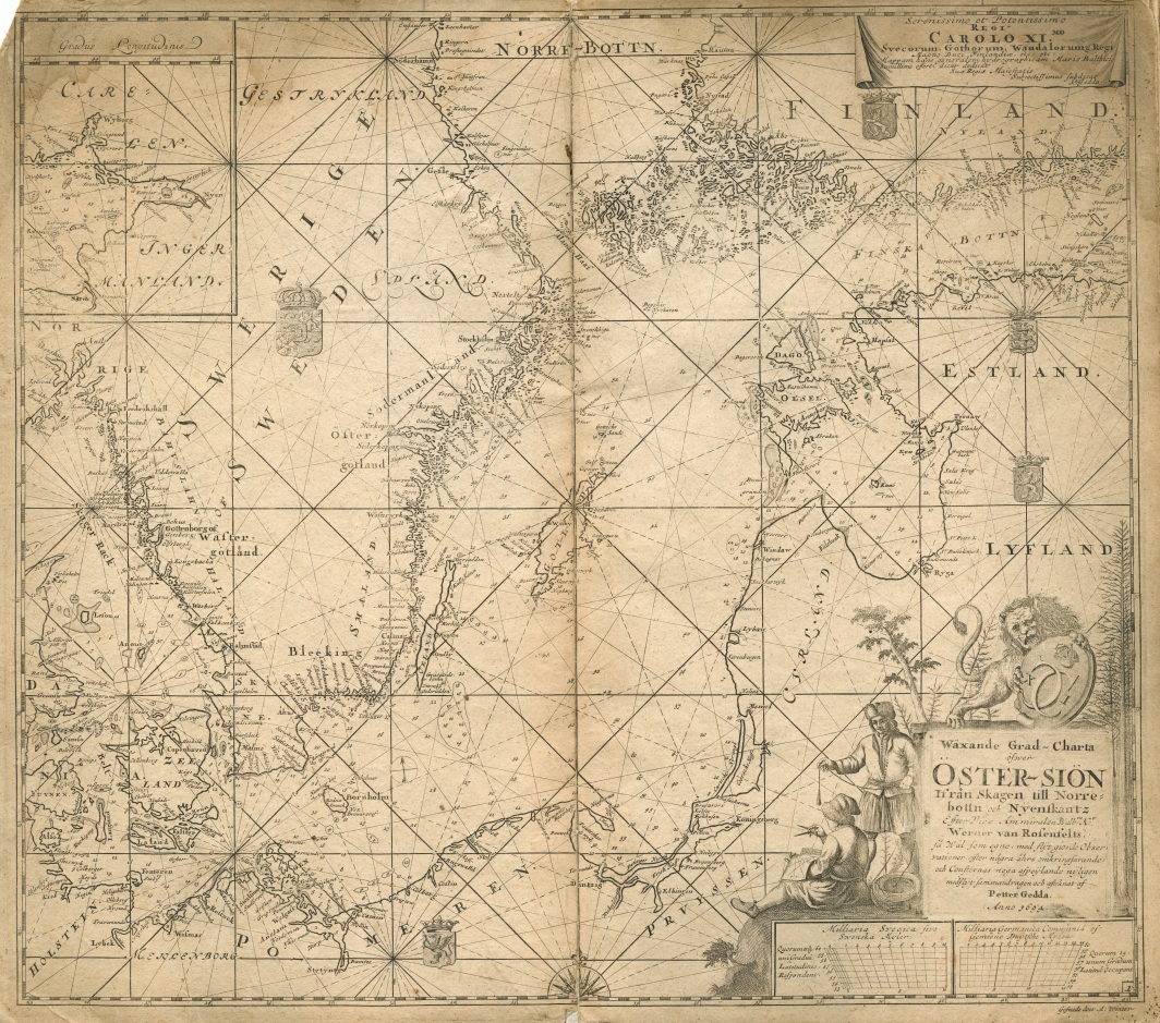 Map of Baltic Sea by Werner von Rosenfeldt and Petter Gädda